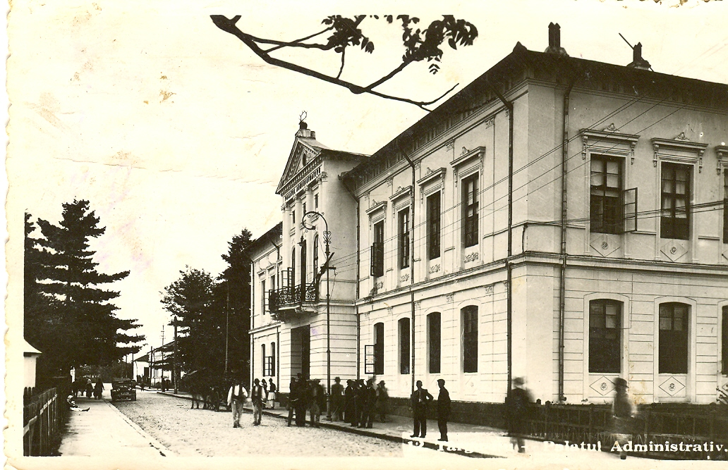 Administrative Palace in Târgu Jiu, the former Gorj County Hall during the interwar period. The historical building was built in 1875.